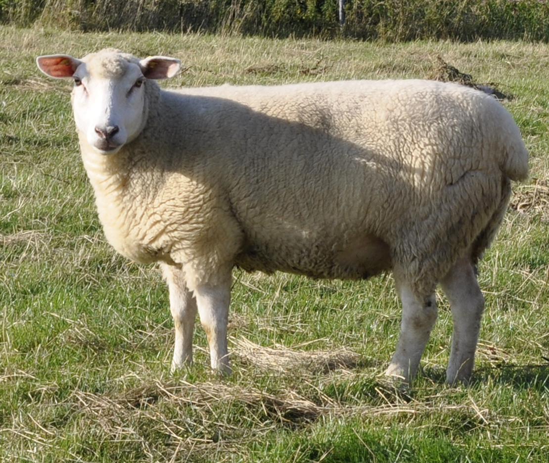 German Whiteheaded Mutton - Ewe 2,5 years old